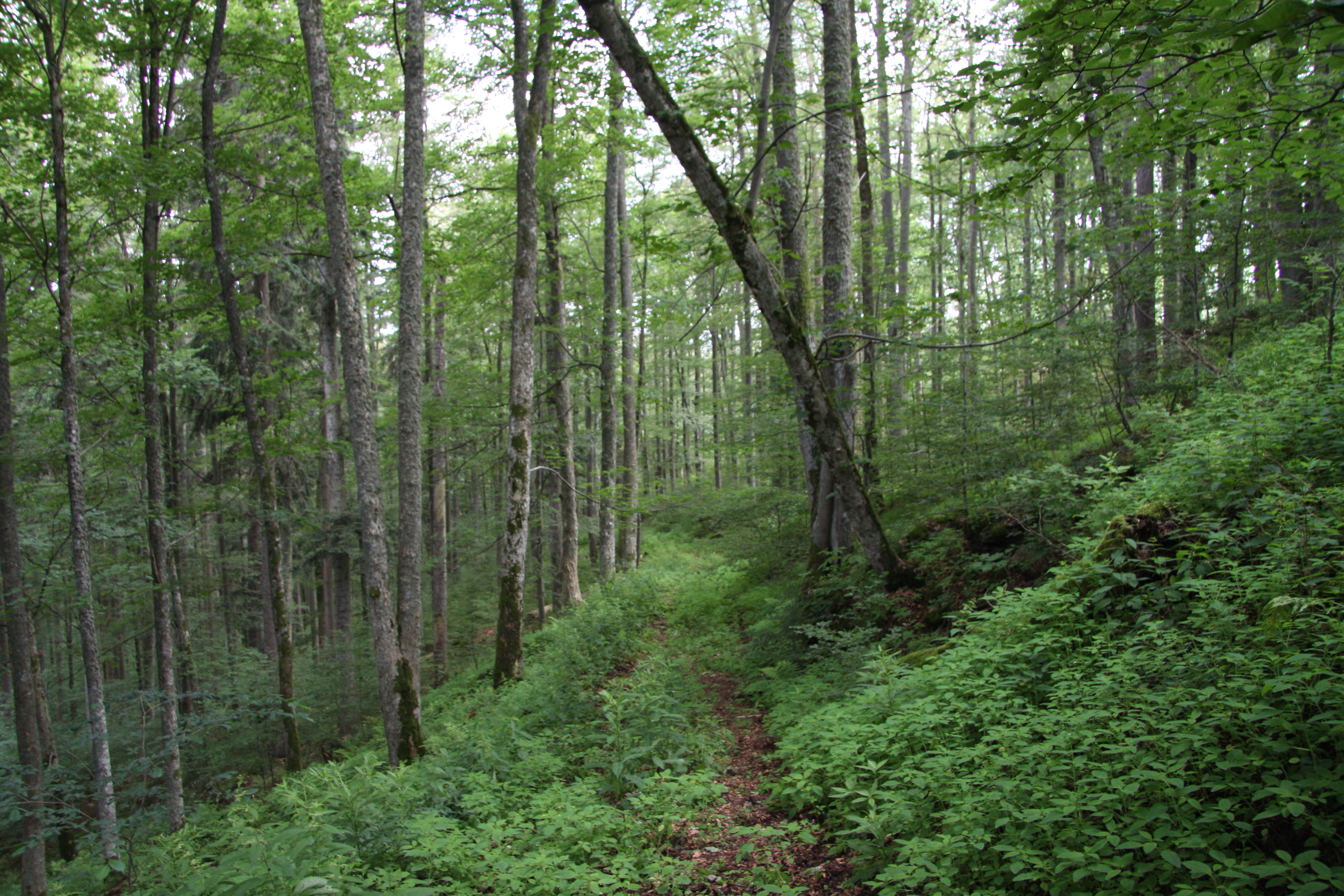 Natural monument Jilmová skála on the flanks of Boubín mountain near Kubova Huť, Prachatice District, Czech Republic - Google Maps - Google Earth